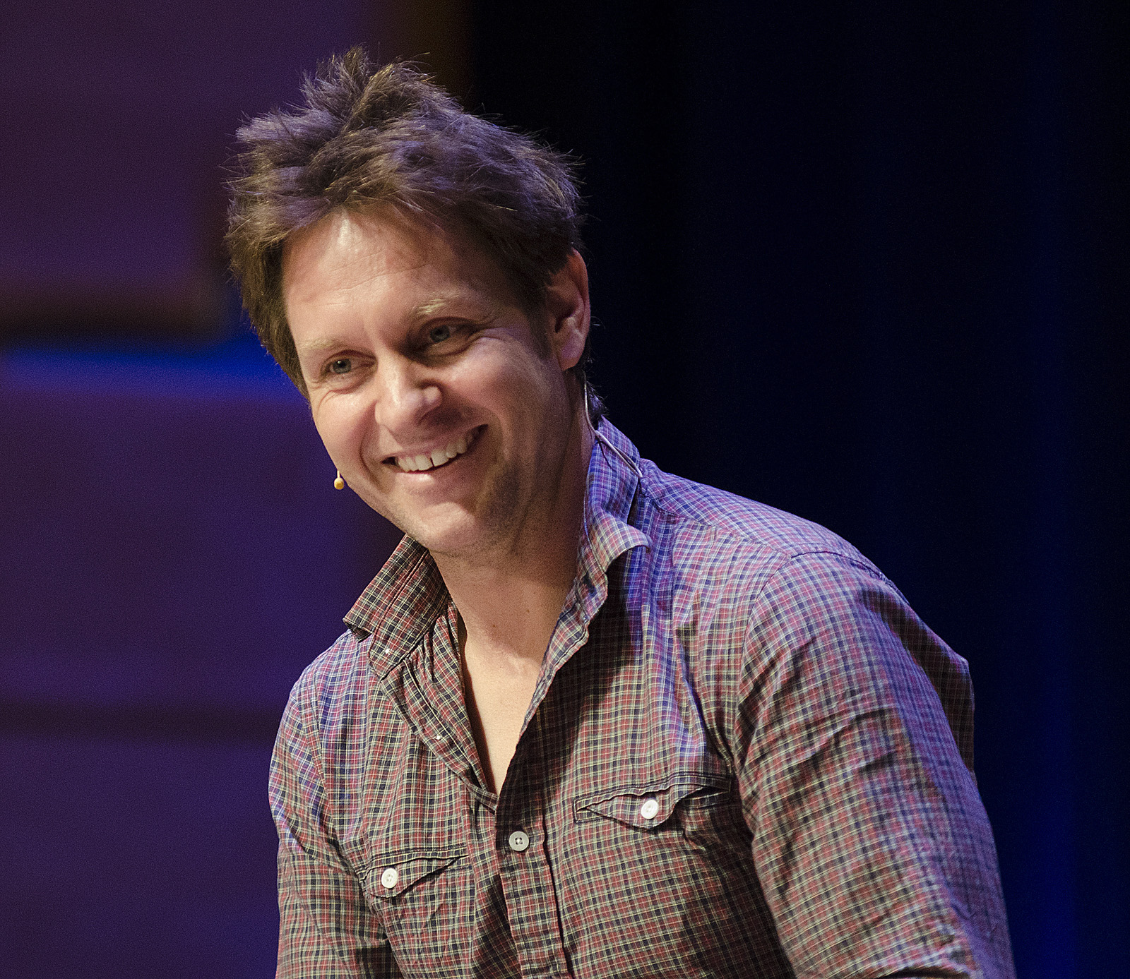 Craig Reucassel, speaking at the Australian Skeptics National Convention 2017. Panel discussion, topic: The War on Waste. 10:05am, Sunday 19 November 2017. Other panel members, Stephen Oliver and Jodi Boylan.